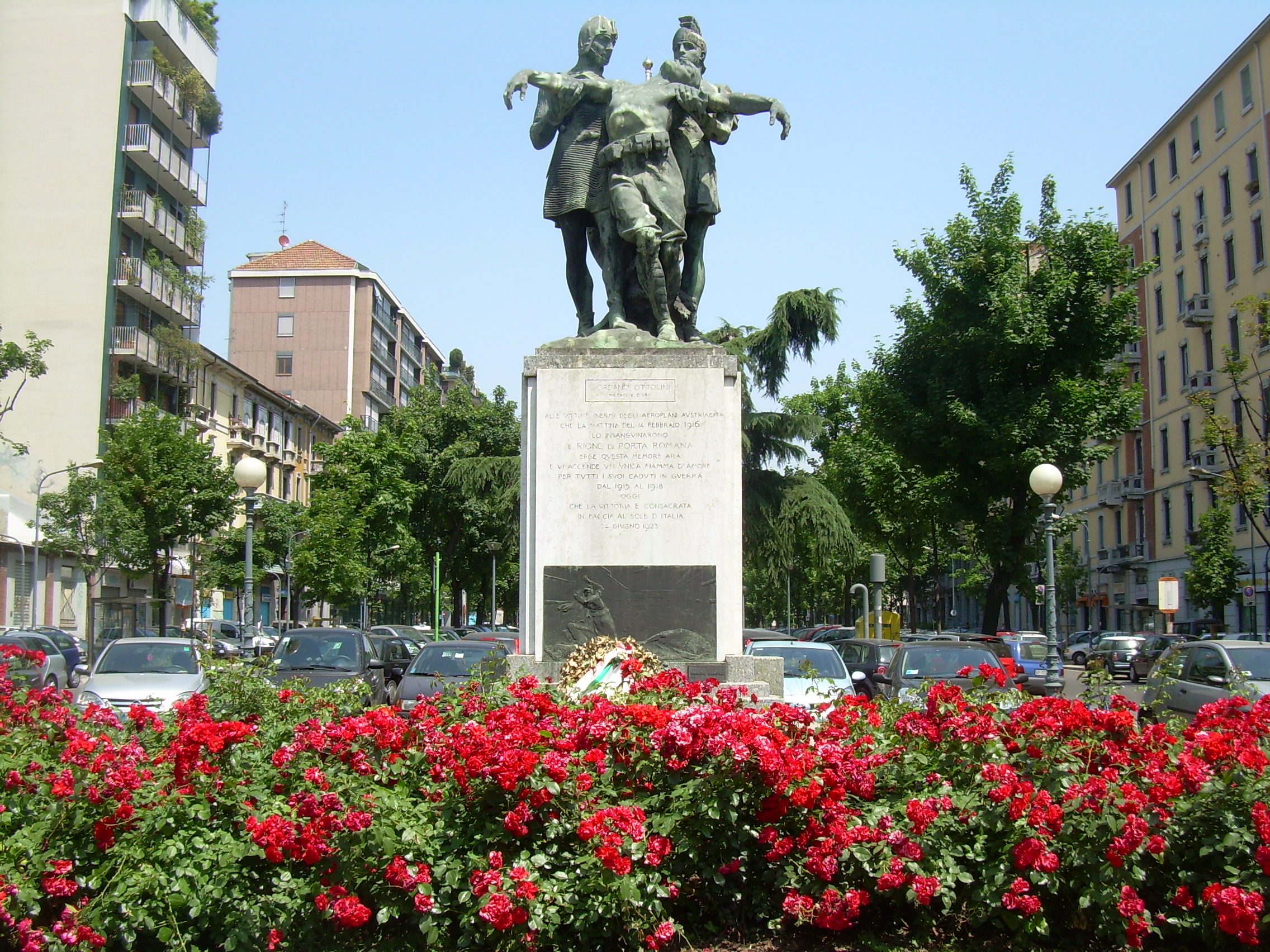 Monument to Austria's bombing victims of 1916 and to the fallen in the World War I from the Porta Romana district: via Tiraboschi, Milan